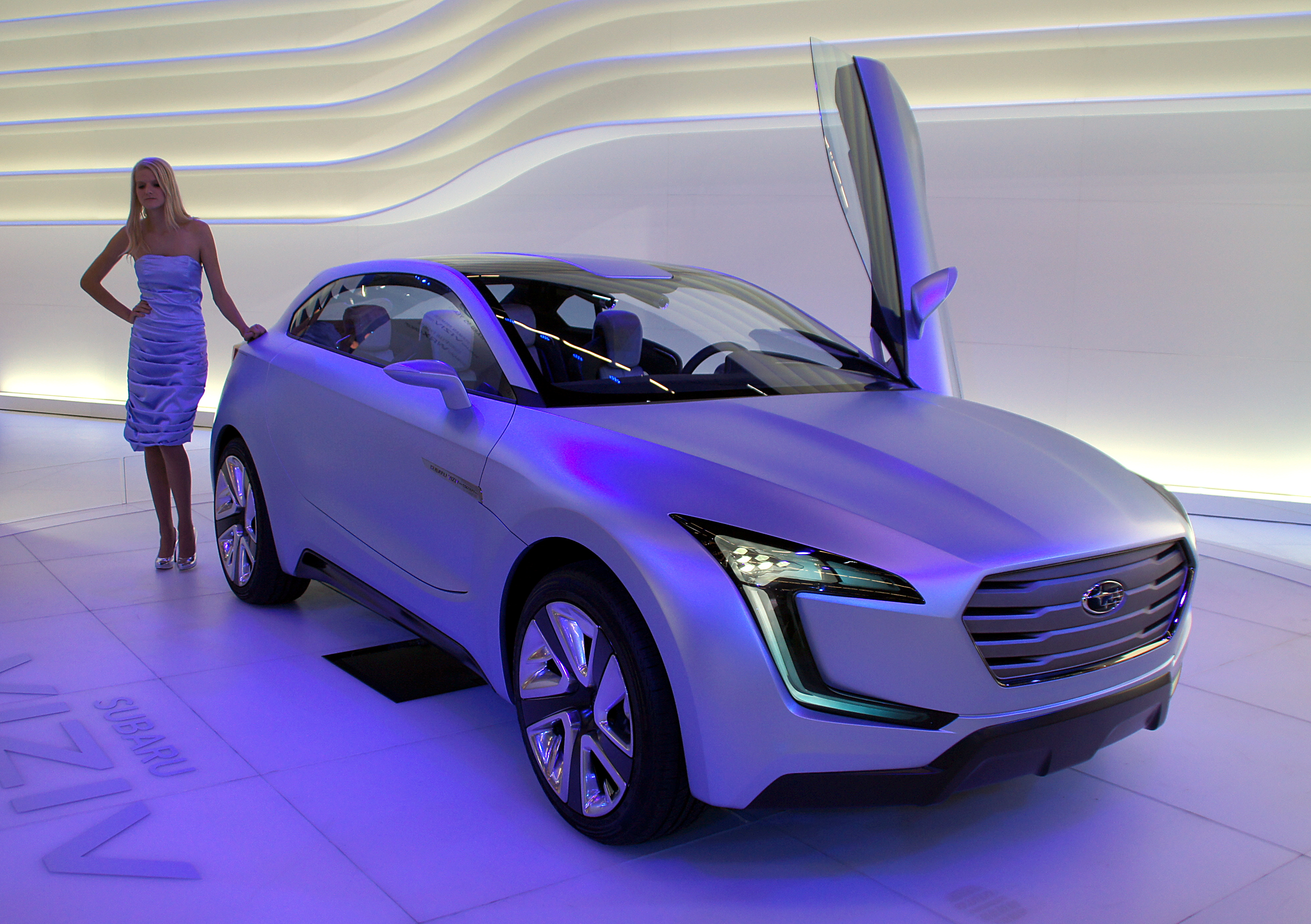 Subaru Viziv Concept, an SUV crossover study with plug-in hybrid powertrain, at Frankfurt Motor Show, 2013. The name means "Vision for Innovation".